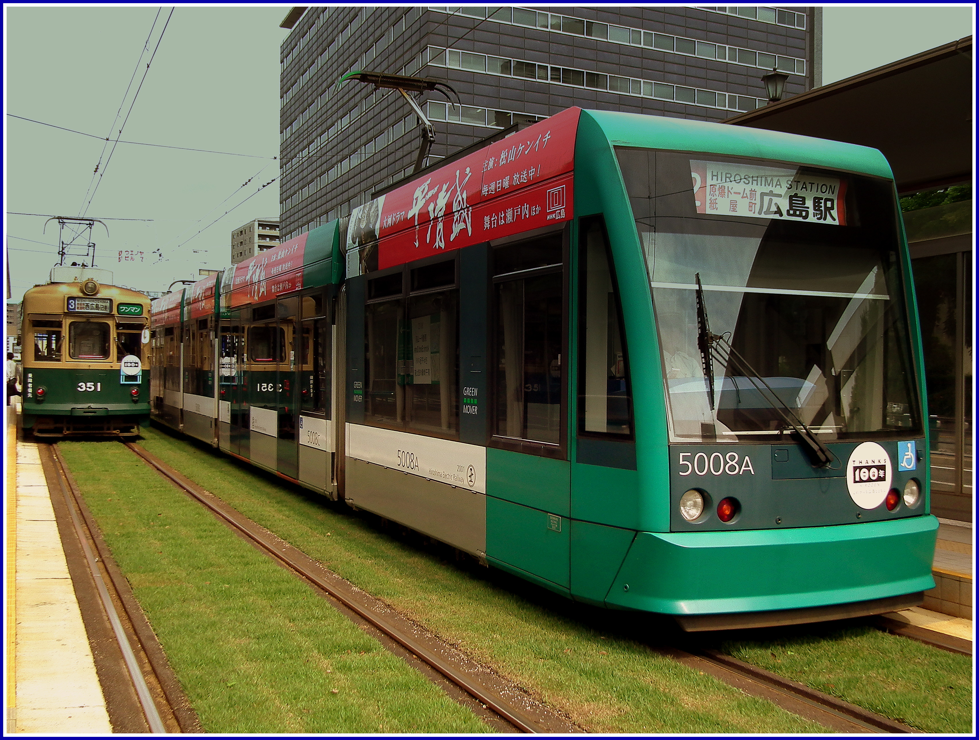 HIROSHIMA STREETCARS AT STOP M10 ATOMIC BOMB DOME JAPAN JUNE 2012